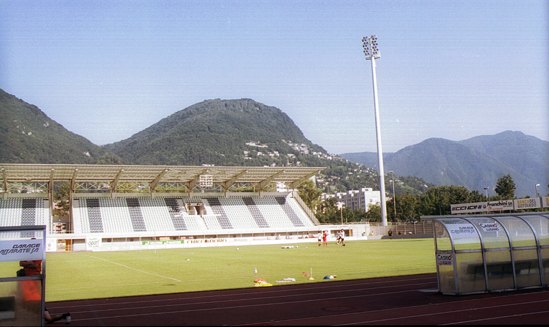 Cornaredo Stadium in Lugano (TI), Switzerland